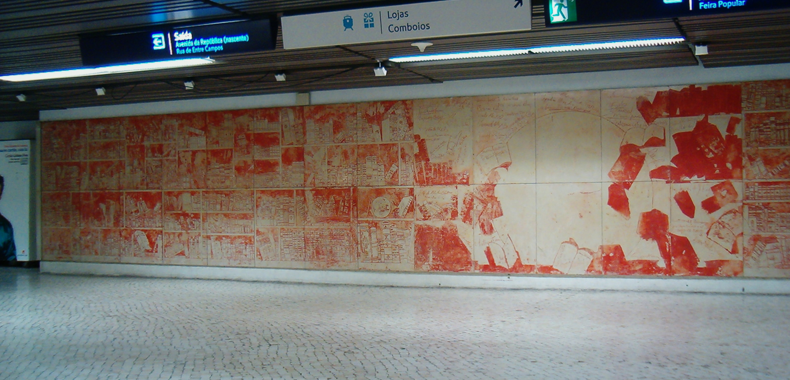 Metro station Entre Campos (Lisboa); panel by Bartolomeu dos Santos